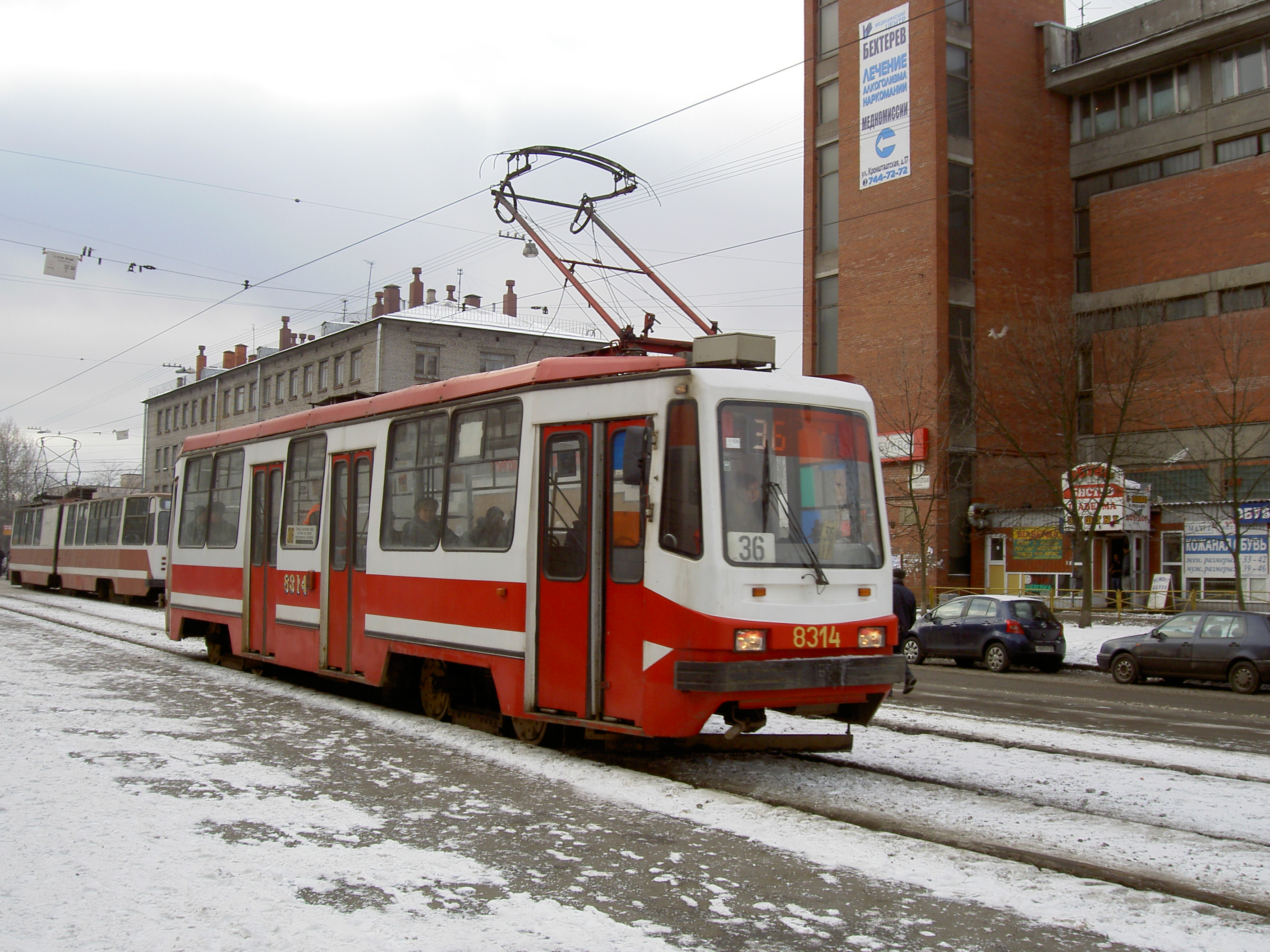 Trams at Kronshtadskaya street in Saint Petersburg